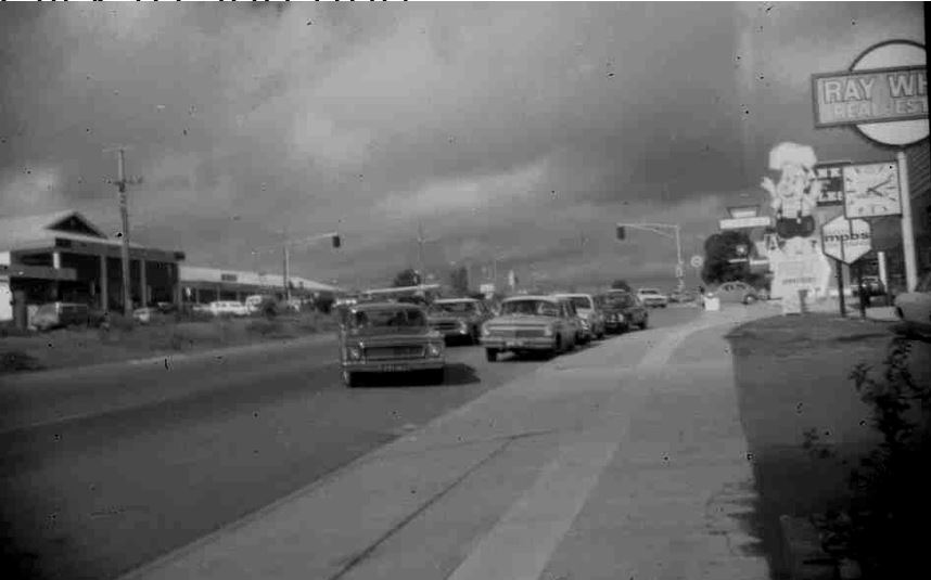 View looking south on Gympie Road, Brisbane, Aspley, Queensland, showing new shopping centre